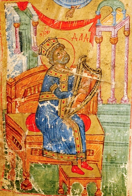 A miniature from the Georgian Psalter MSS copied at the behest of Kvarkvare and Mzechabuk Jaqeli in Samtskhe in 1494.